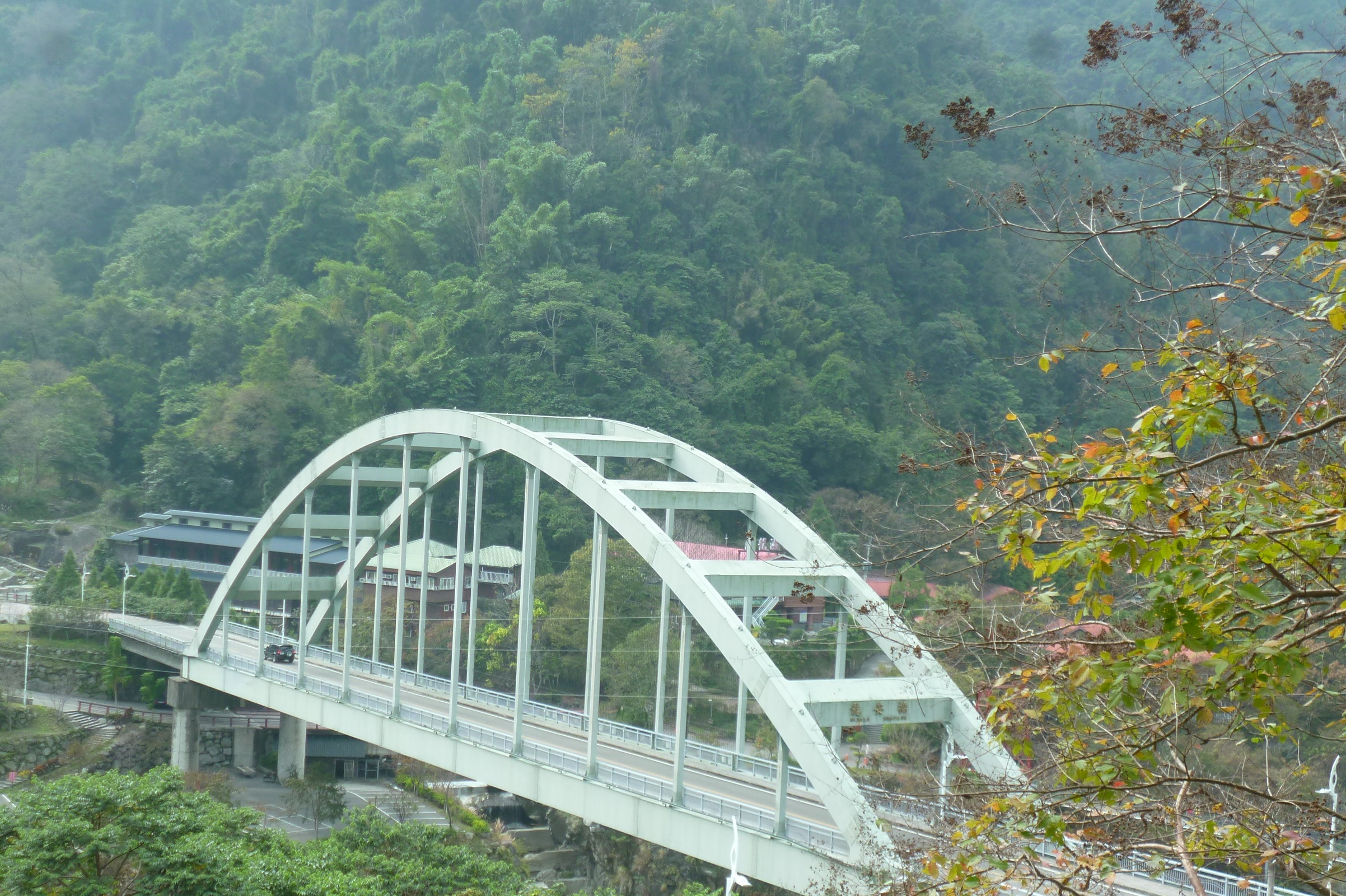 Long'an Bridge, Tai'an Township, Miaoli County, Taiwan.